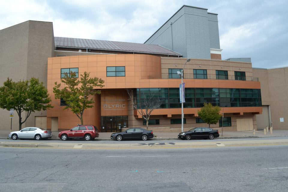 Lyric Theatre, 124 W. Mt. Royal Ave., Baltimore, Maryland